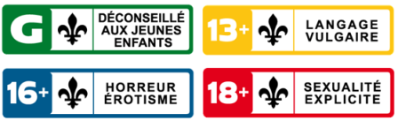 Quebec cinema ratings